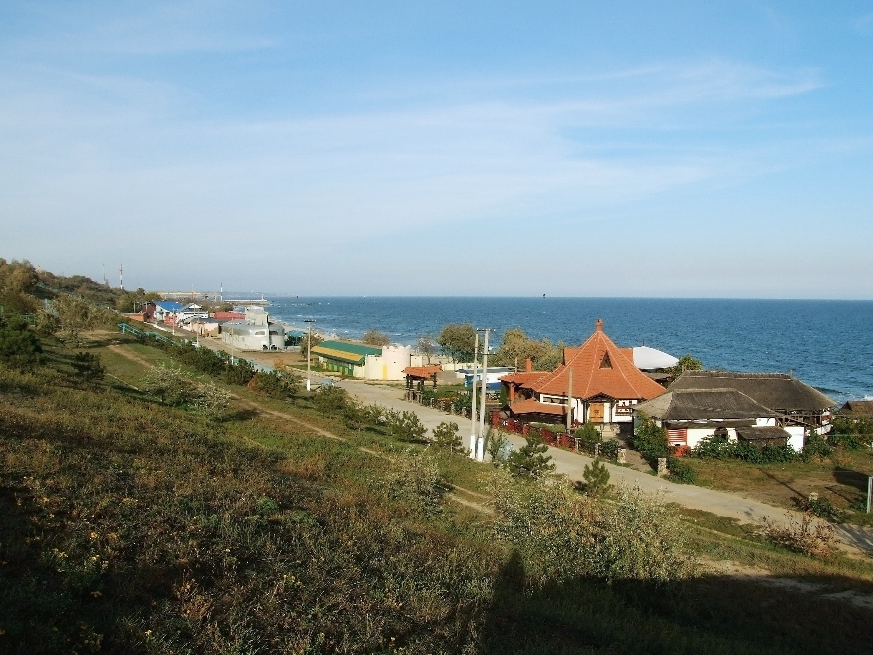 A sea-front of Illichivsk Odessa Oblast, Ukraine